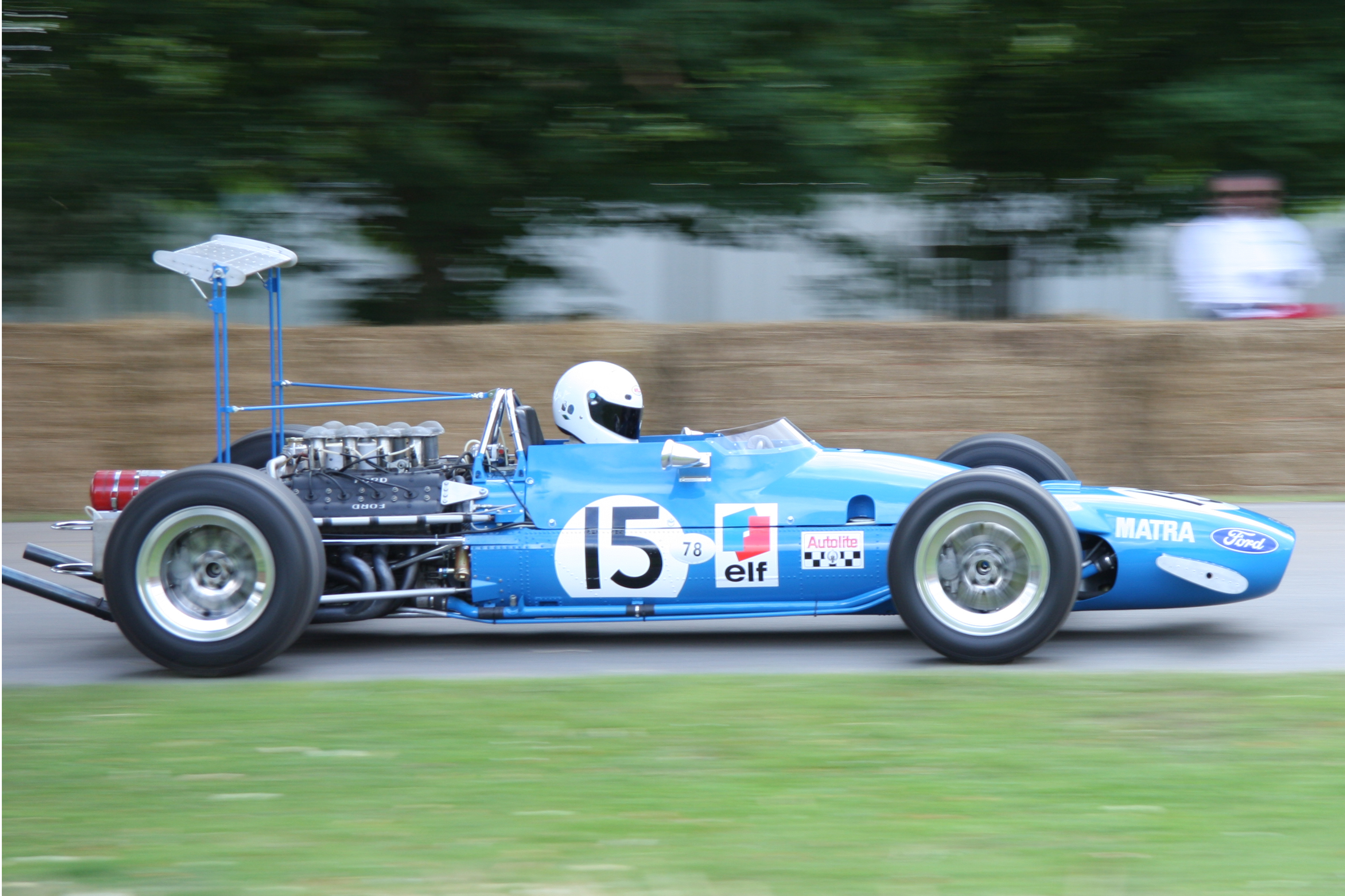 The Matra MS10 being demonstrated at the 2008 Goodwood Festival of Speed.